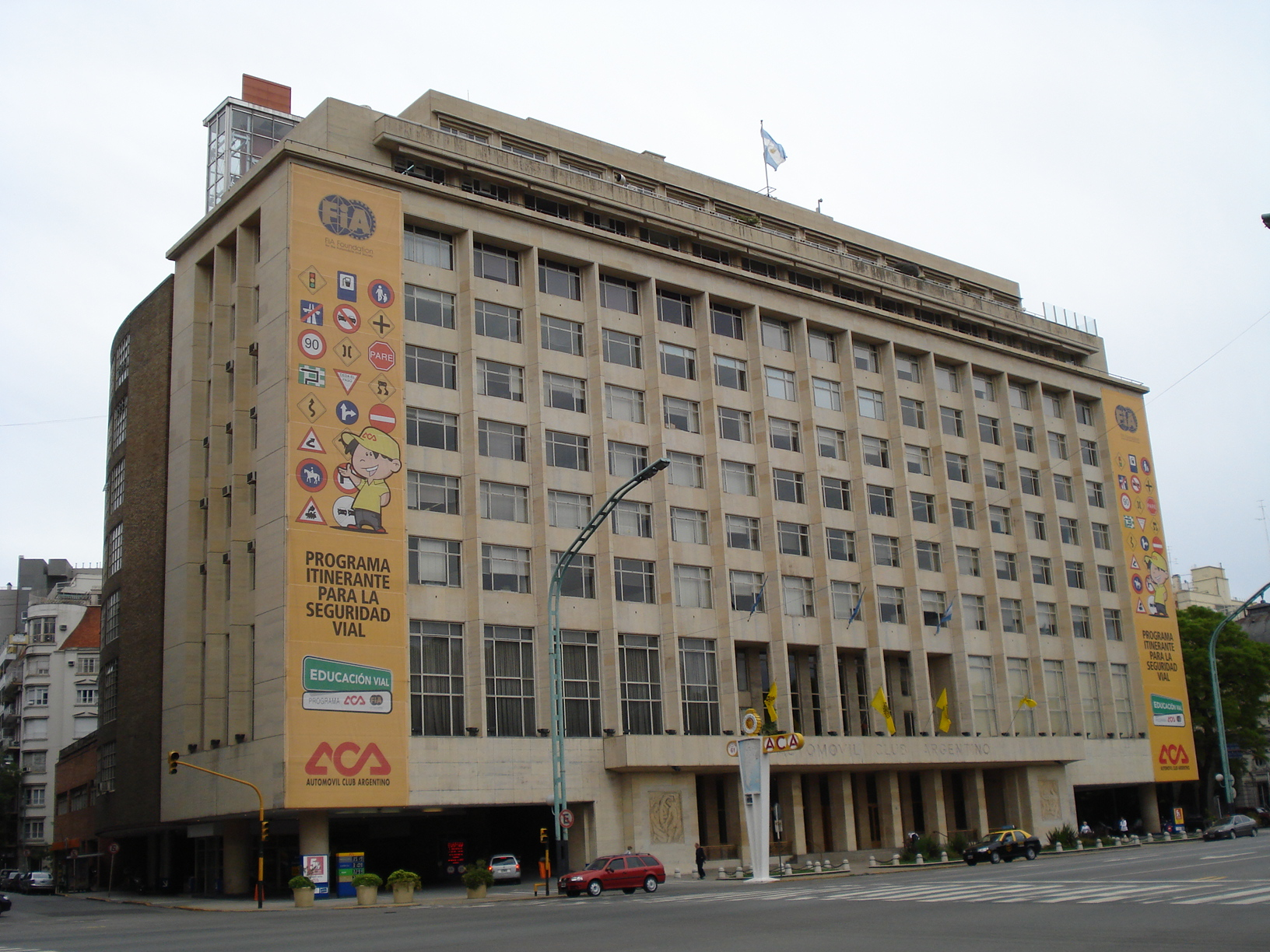 Central building of the Automóvil Club Argentino, in Buenos Aires.